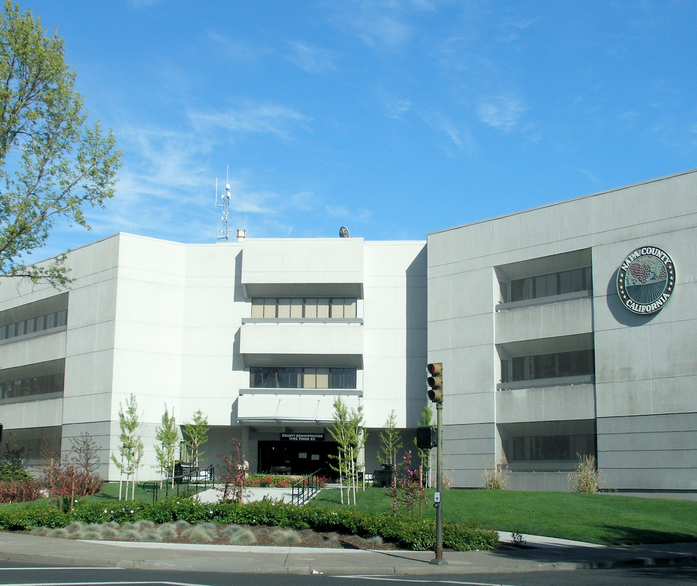 The County Administration Building for Napa County, located in downtown Napa.